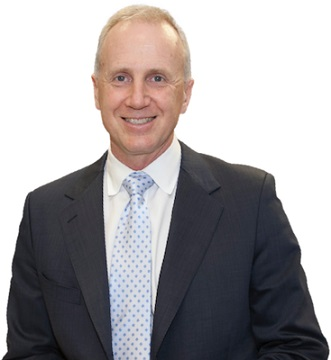 sp head